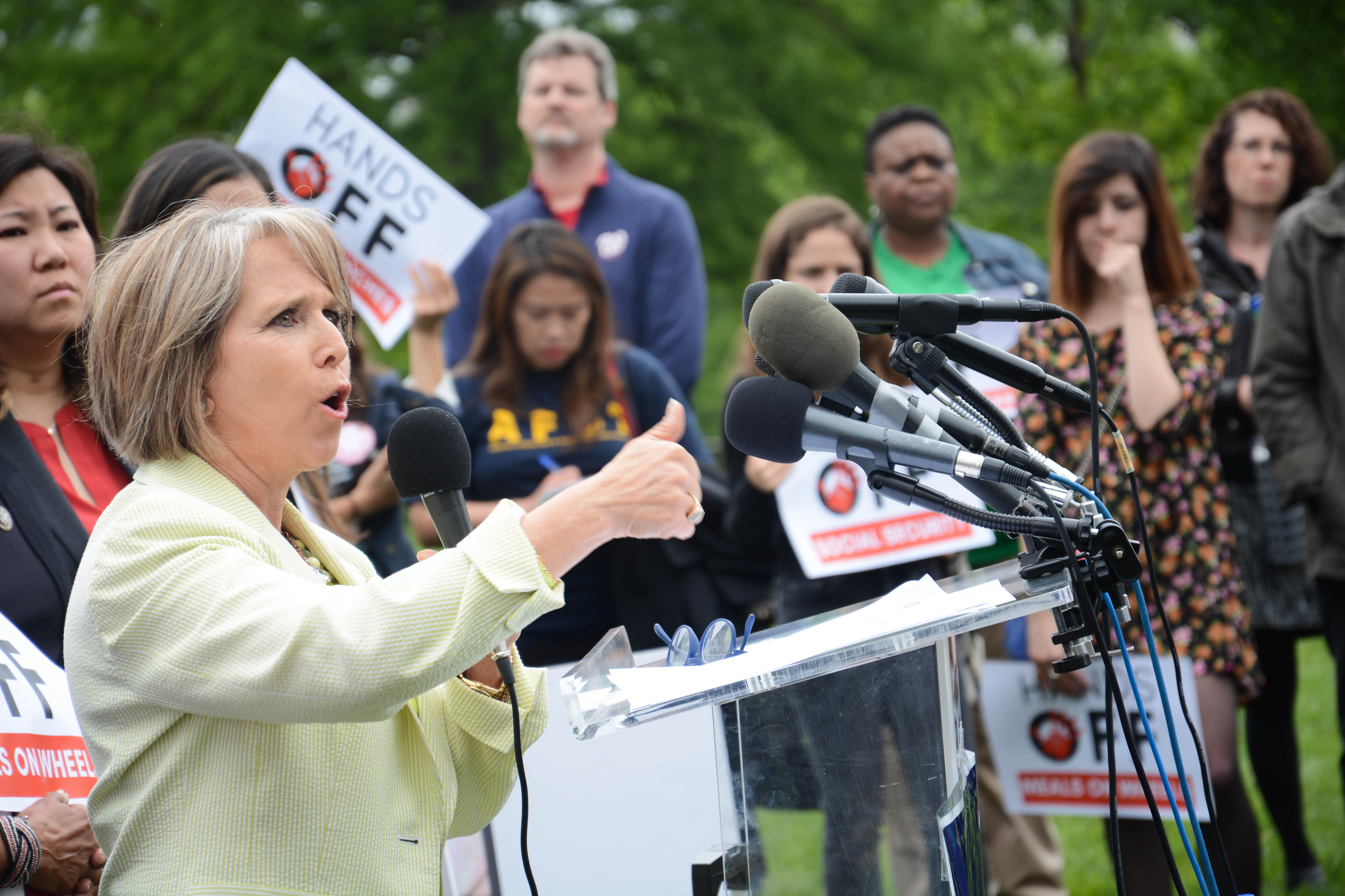 Lawmakers, community organizations and unions gather on the grounds of the Capitol to voice concerns about the President's proposed budget.